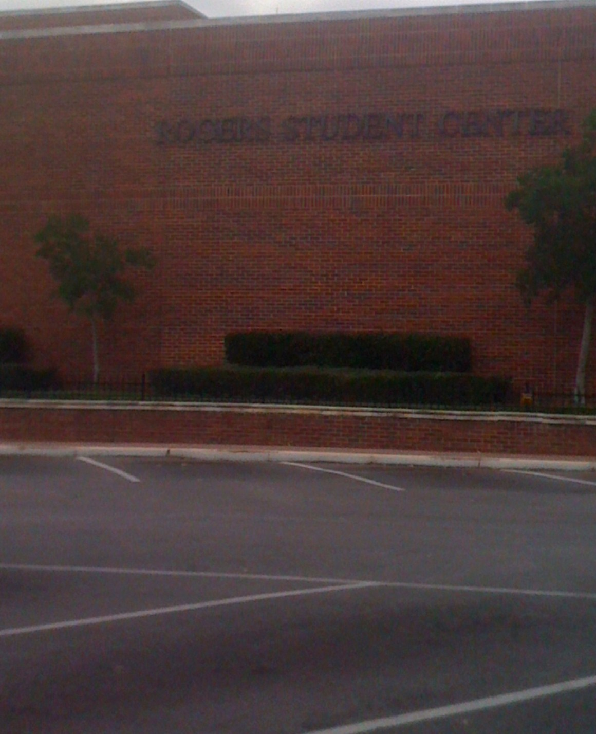 Rogers Student Center located on the main campus of Tyler Junior College.